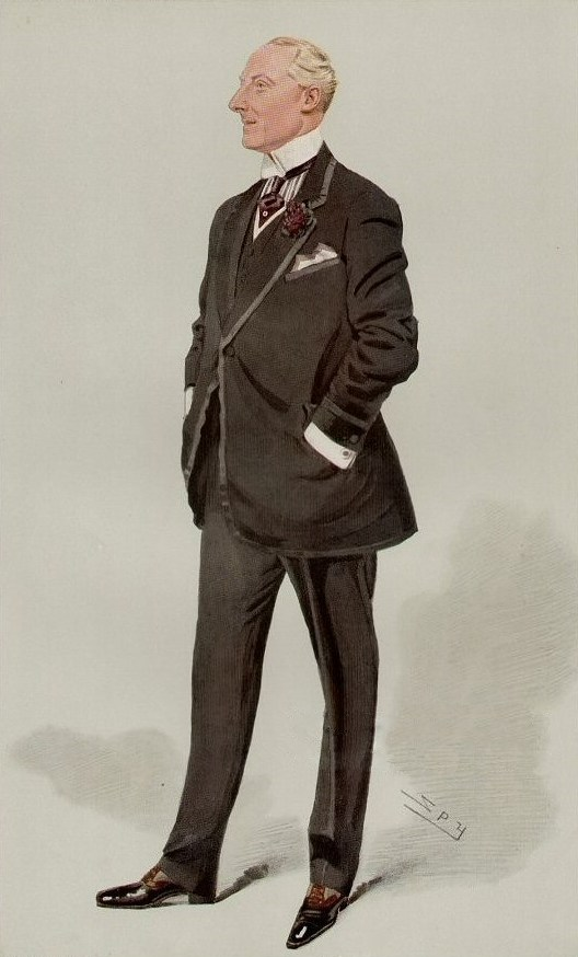 Men of the Day No.1119: Caricature of Allan Aynesworth. Caption reads: "Tony"